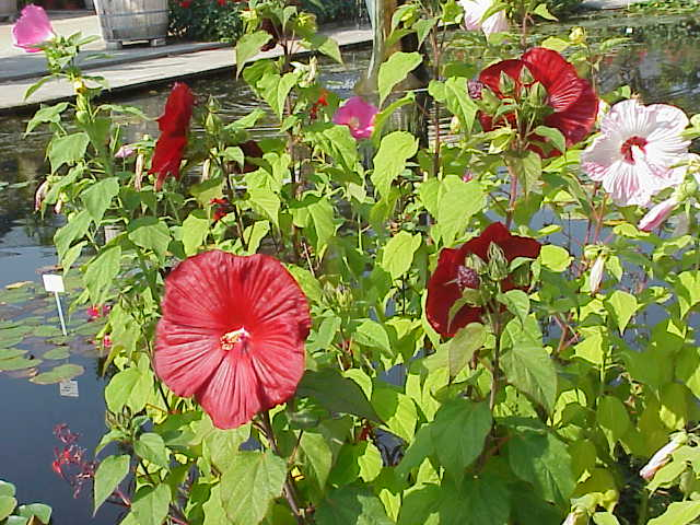 Species: Hibiscus moscheutos Family: Malvaceae Image No. 9